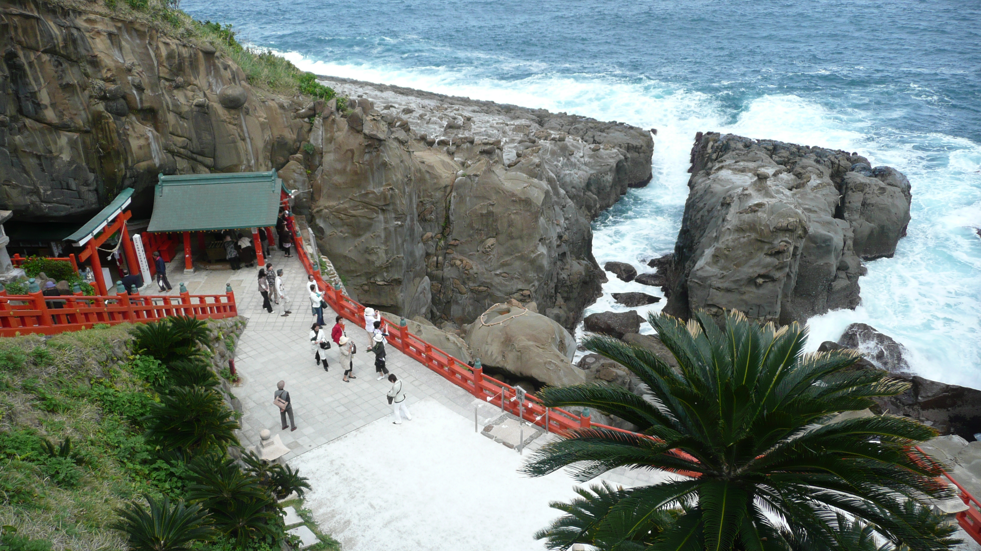 Udo Jingu from Tamabashi (Nichinan City, Miyazaki, Japan)